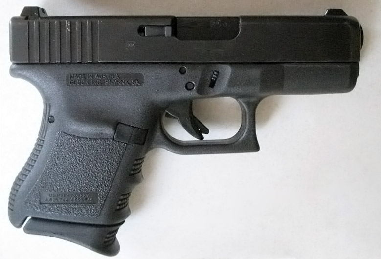 A GLOCK 29 with factory night sights and a Pearce magazine floor plate, manufactured in the spring of 2005. The Pearce base doesn't add magazine capacity but does provide a pinky grip that's absent from the stock pistol.